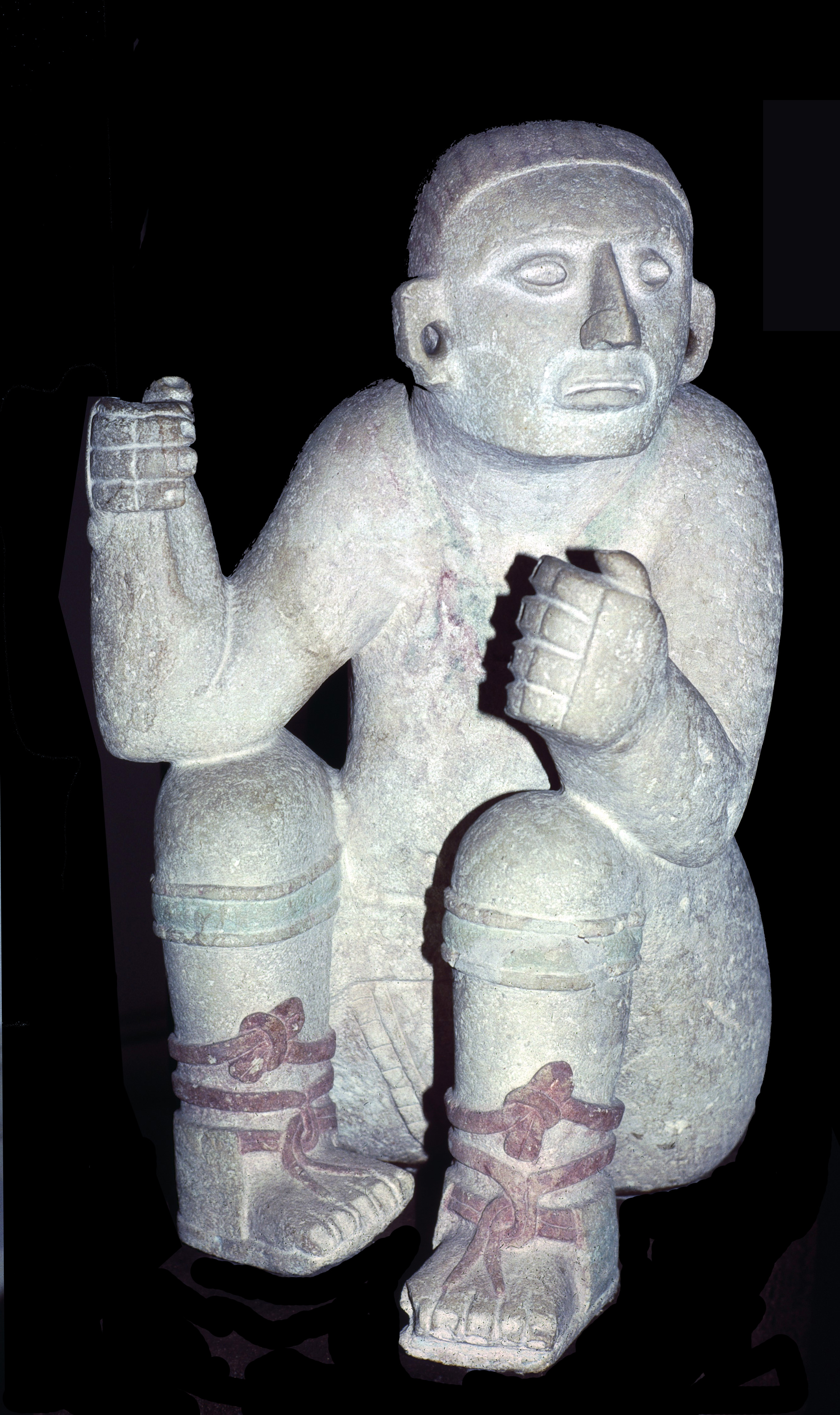 Chichen Itza, Yucatan, Mexico: flag bearer